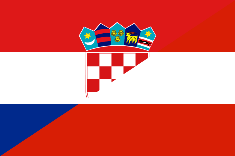 Flag of Croatian/Austrian nationality Hybrid of File:Flag of Austria.svg and File:Civil Ensign of Croatia.svg